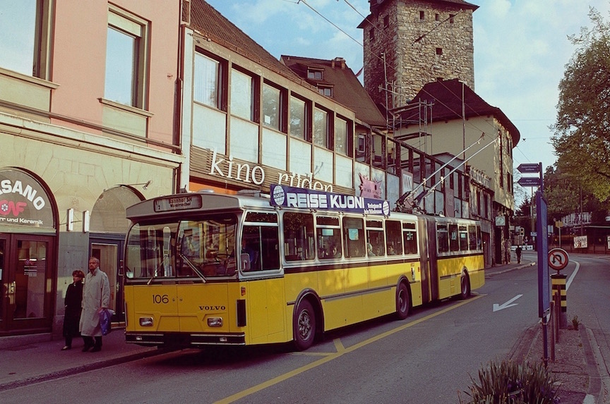 Schaffhausen trolleybus 106 northbound on Bahnhofstrasse, at the bus stop across from Schaffhausen railway station (Bahnhof Schaffhausen), in 1991. No. 106, built in 1975 by Volvo (chassis) and Hess (body) and fitted with Siemens electrical equipment, was the only trolleybus of its type in the fleet of the Schaffhausen trolleybus system.